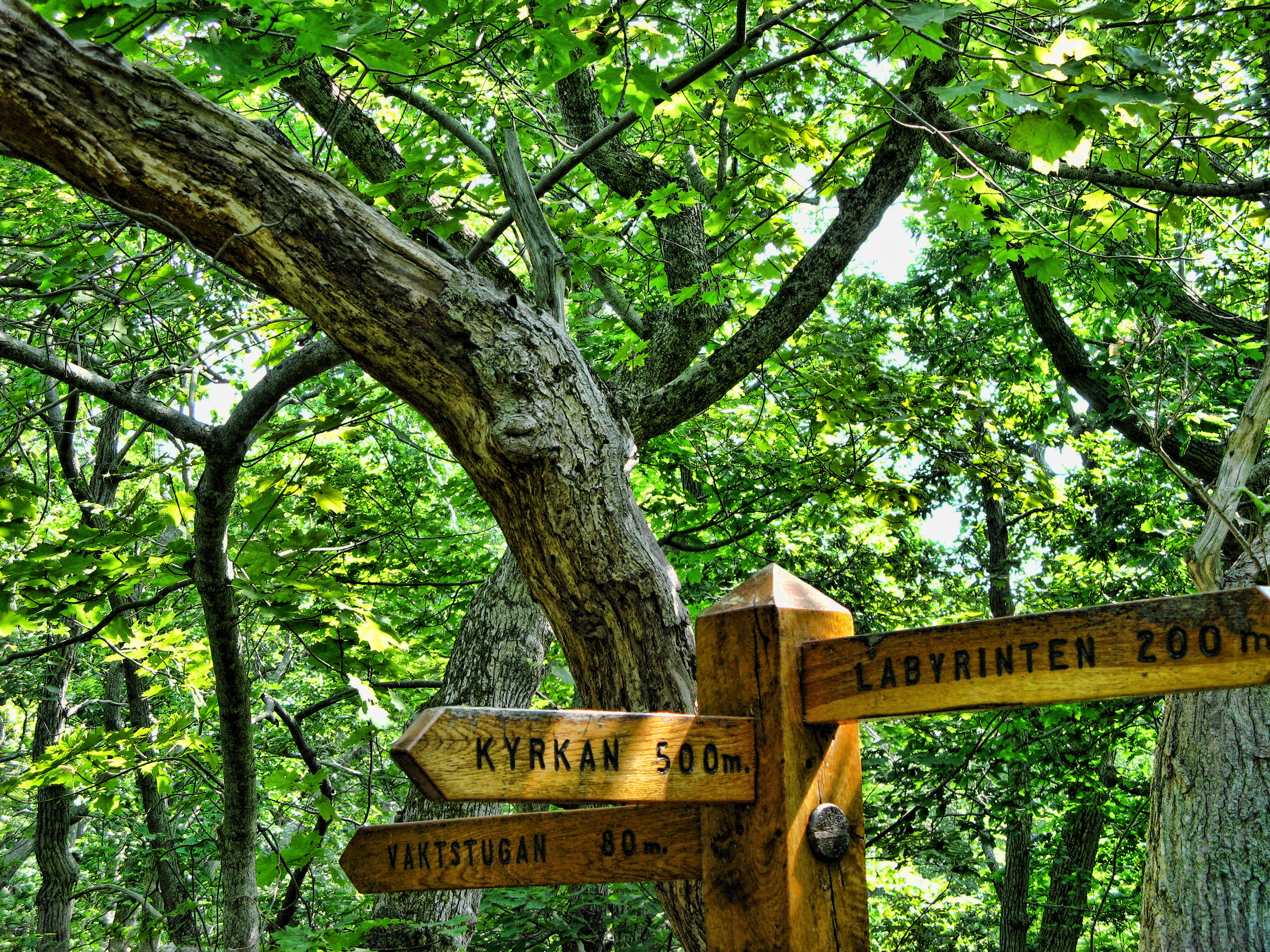 National Park of Blå Jungfrun, Oskarshamn community, Sweden.